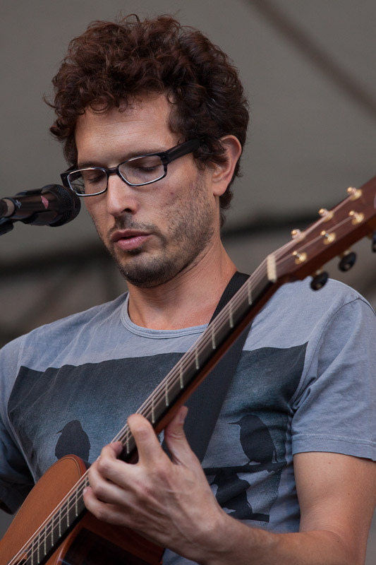 The Israeli-Romanian/South African singer Yoav Sadan is performing at the Kirstenbosch Summer Sunset Concerts in Cape Town.